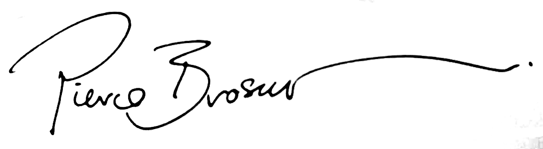 Pierce Brosnan autograph.